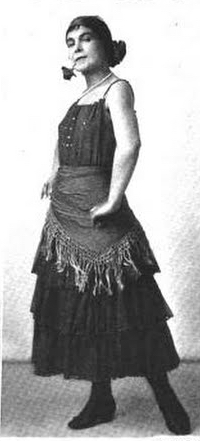 A white woman, standing, wearing a dress with no sleeves, and a fringed scarf at her hips; her arms are akimbo. She may have a flower in her mouth.